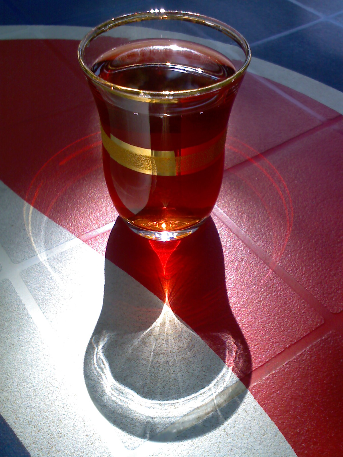 Turkish tea...